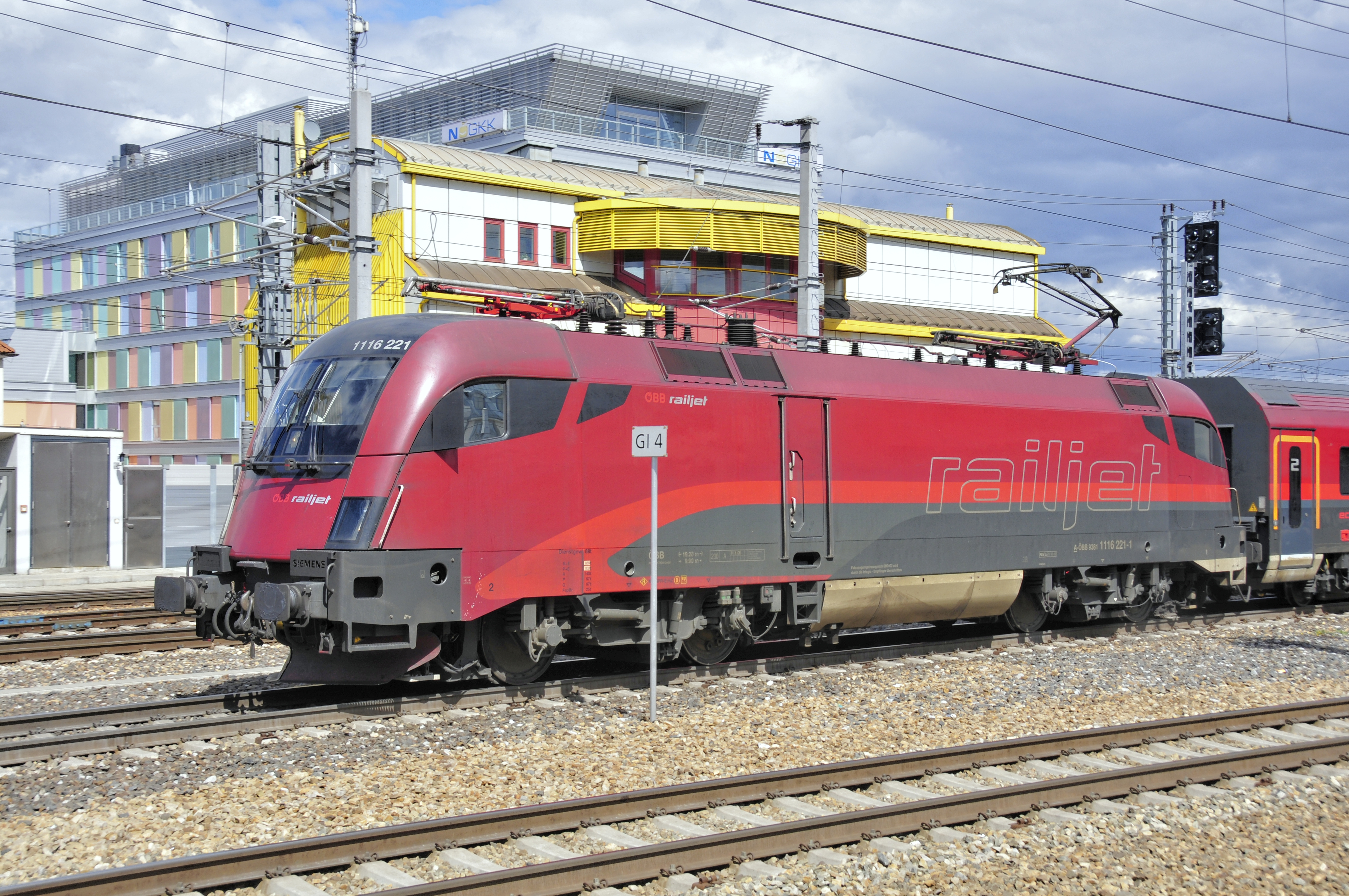 St. Pölten, Austria, Main Train Station Fotowanderung St. Pölten 13. April 2013 in St. Pölten, Niederösterreich 50mm • Allgemeines • Bahnhof • Domplatz • Fahrräder • Landhausviertel • Rathausplatz